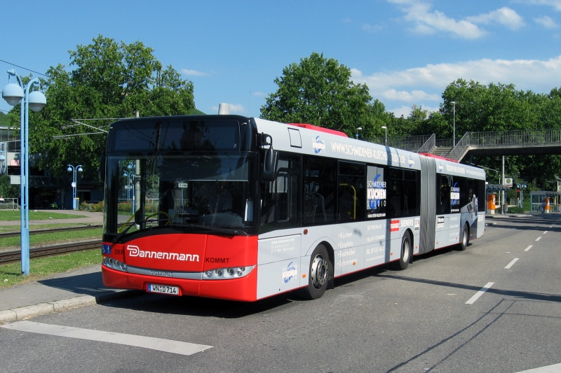 Solaris Urbino 18 Mk3 bus (built 2006) in Stuttgart-Untertürkheim, Germany.